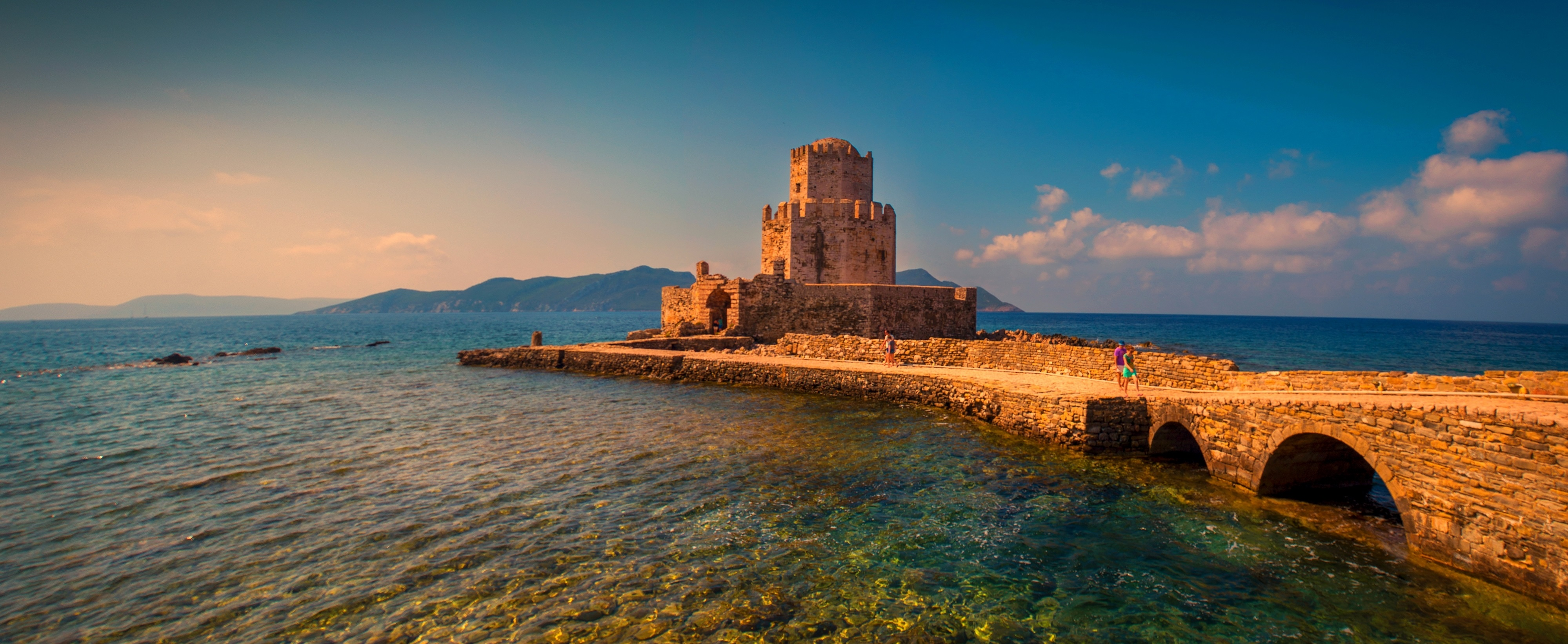 This is the Venetian fortress of Methoni Castle Shot on summer of 2015